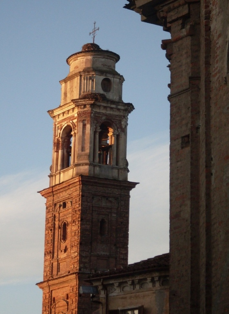 church of San Giovanni Decollato, Racconigi